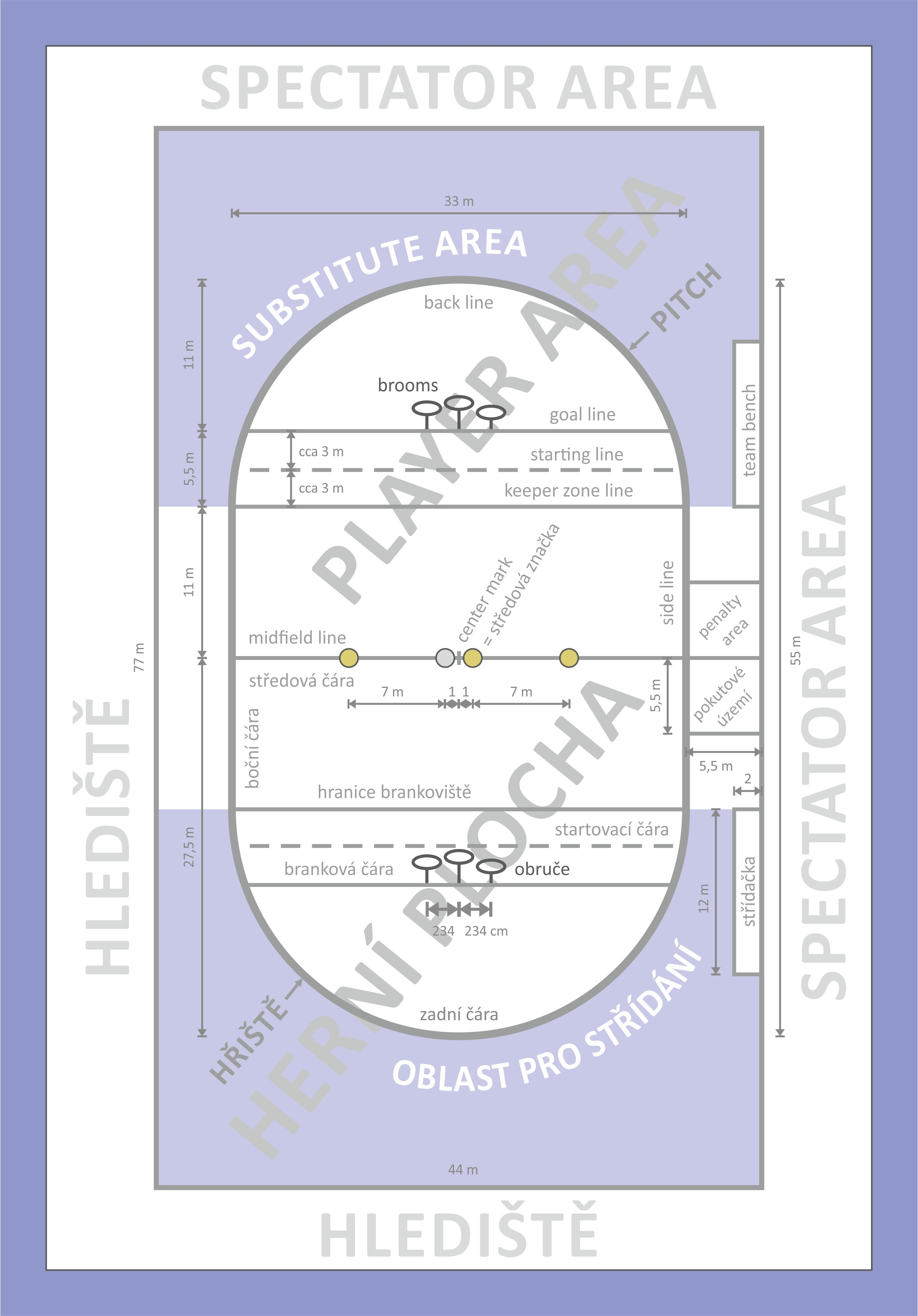 Muggle quidditch pitch